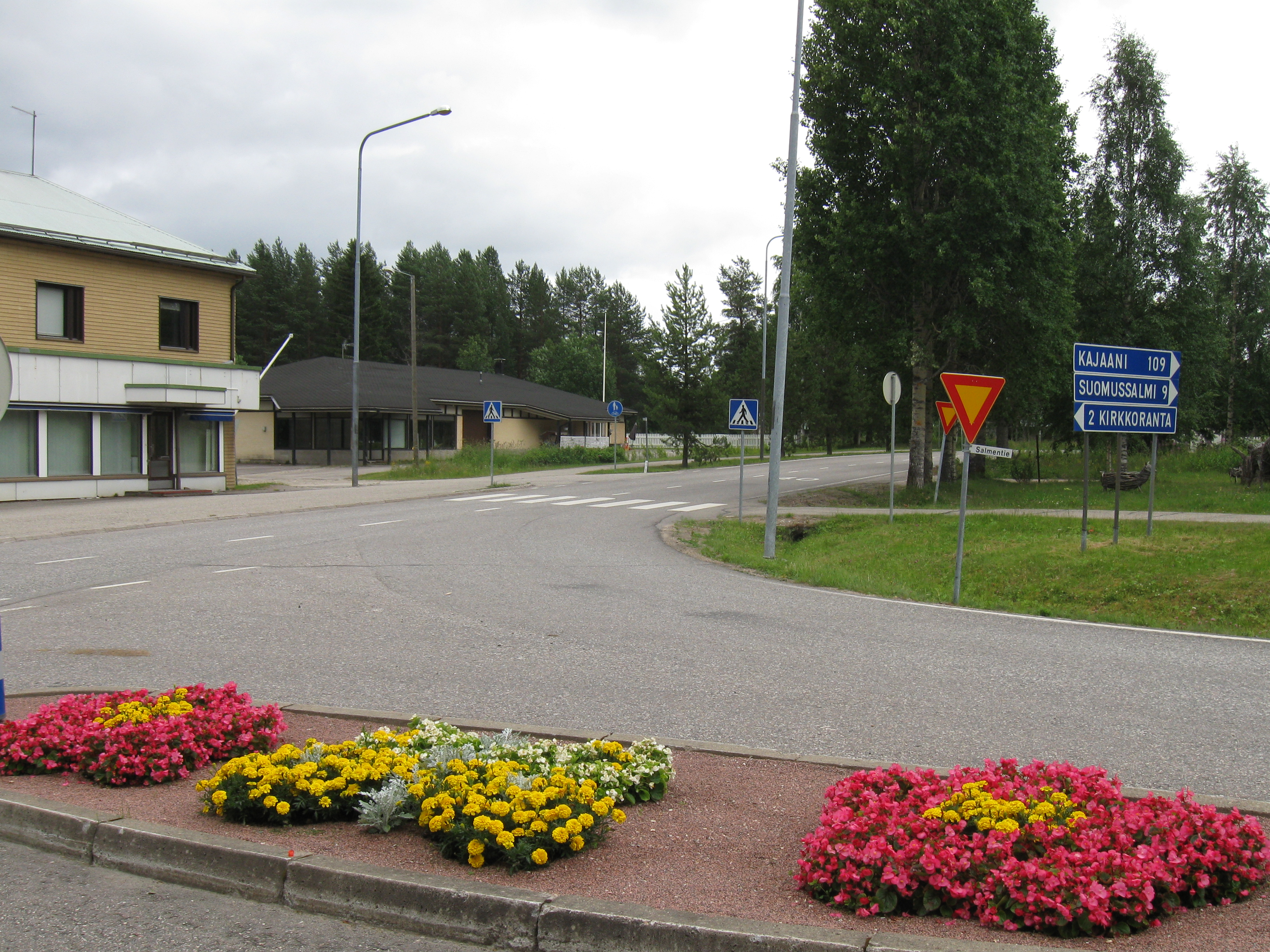 Connecting road 9150 at the centre of Suomussalmi, at the crossing of Kirkkotie towards South-East.